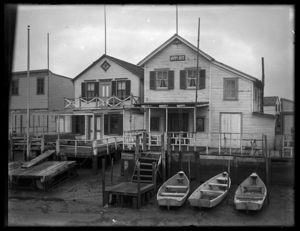 Accession Number: 1974:0056:0152 Maker: William M. Vander Weyde (American 1871–1929) Title: Ramblersville Date: ca. 1900 Medium: negative, gelatin on glass Dimensions: George Eastman House Collection General – information about the George Eastman House Photography Collection is available at For information on obtaining reproductions go to